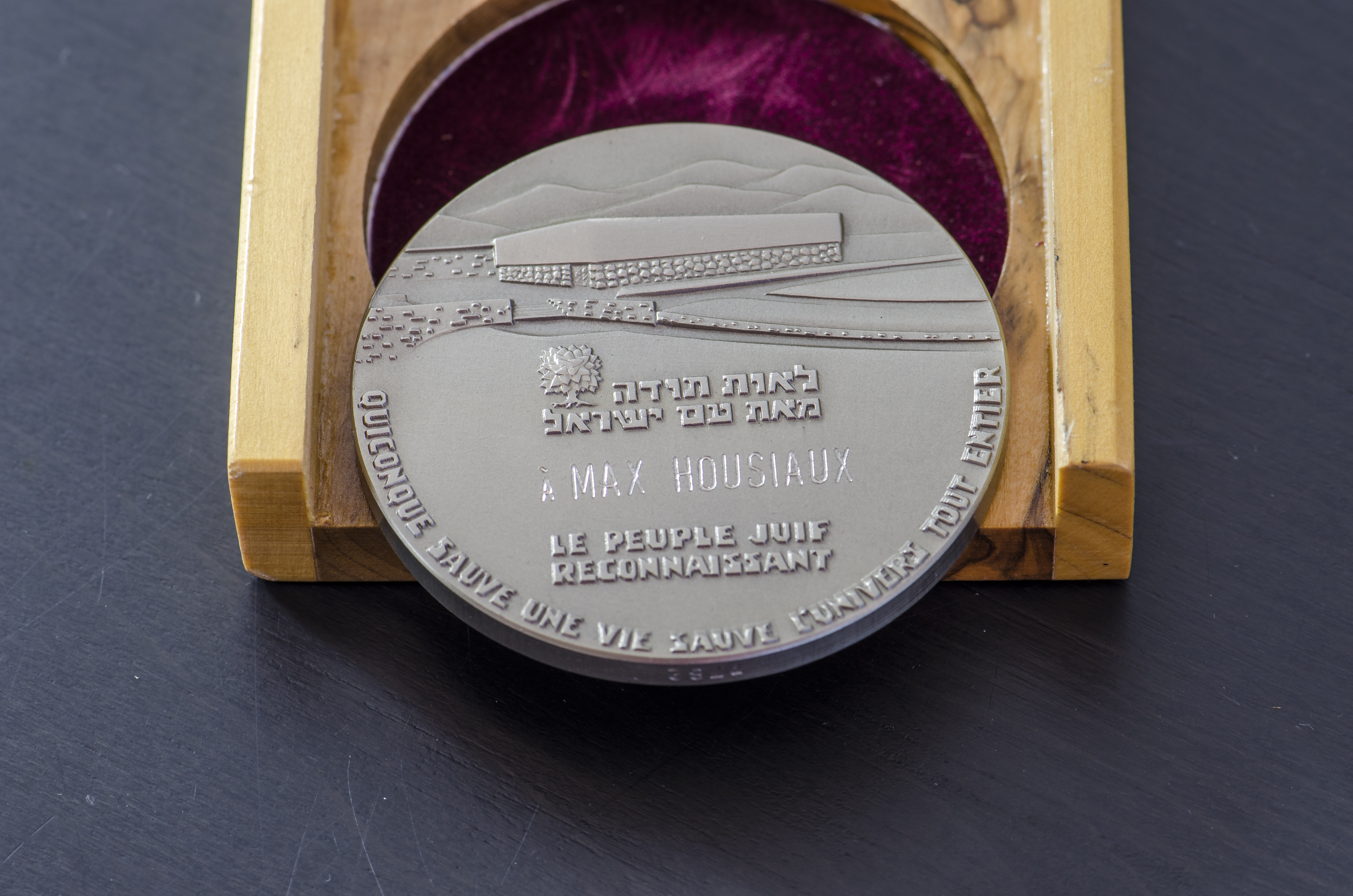 "Righteous Among the Nations" Yad Vashem medal in Kazerne Dossin, Mechelen, Belgium. Awarded to Max Housiaux. This is a file created at the museum: Kazerne Dossin Memorial in Mechelen